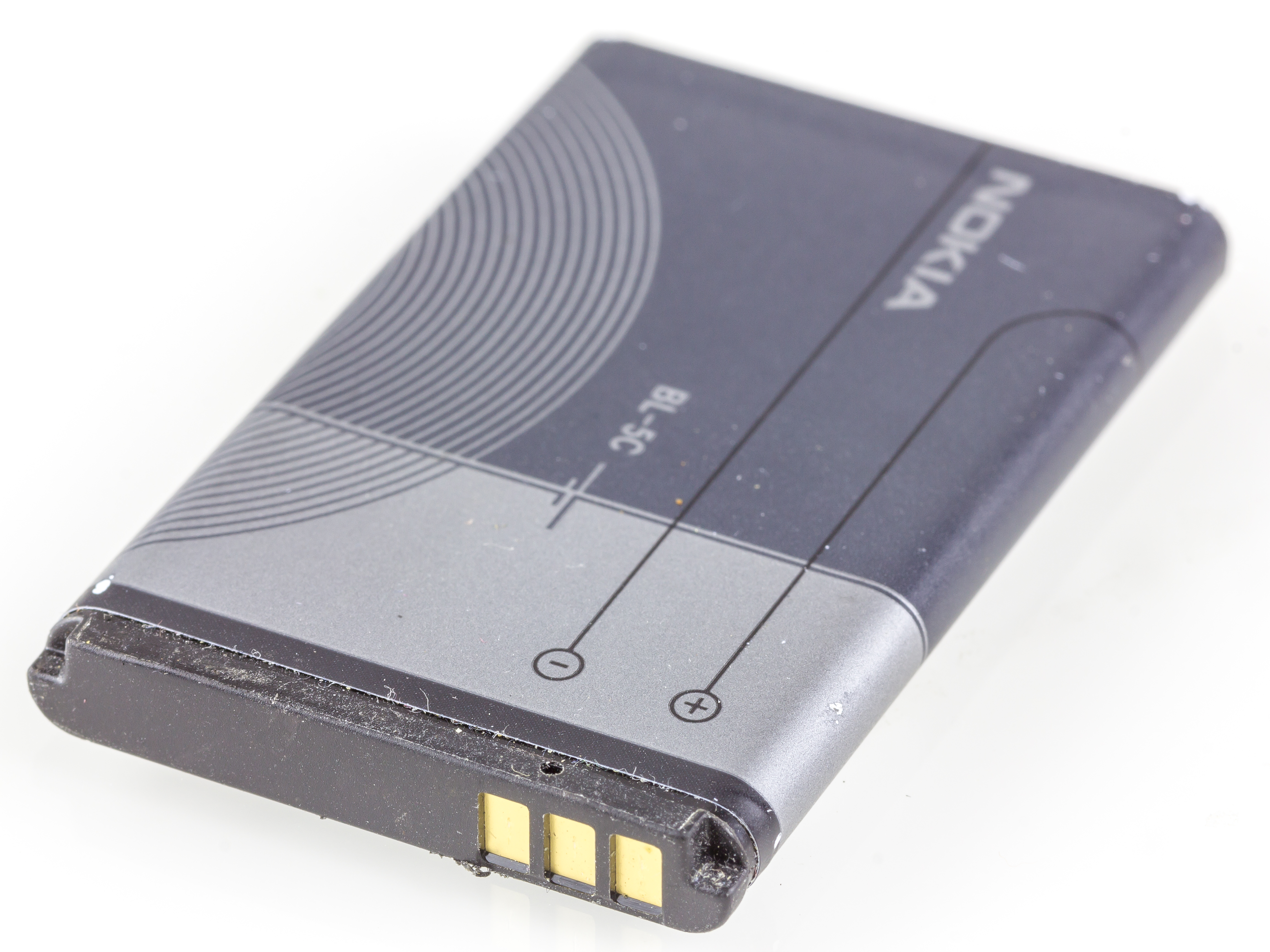 Nokia X2-02 - Li-Ion battery BL-5C. 1020mAh, 3.7V, 3.8Wh